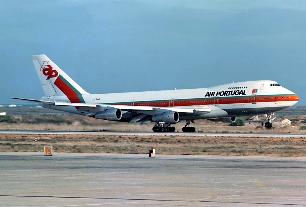 Last touch & go before TWA